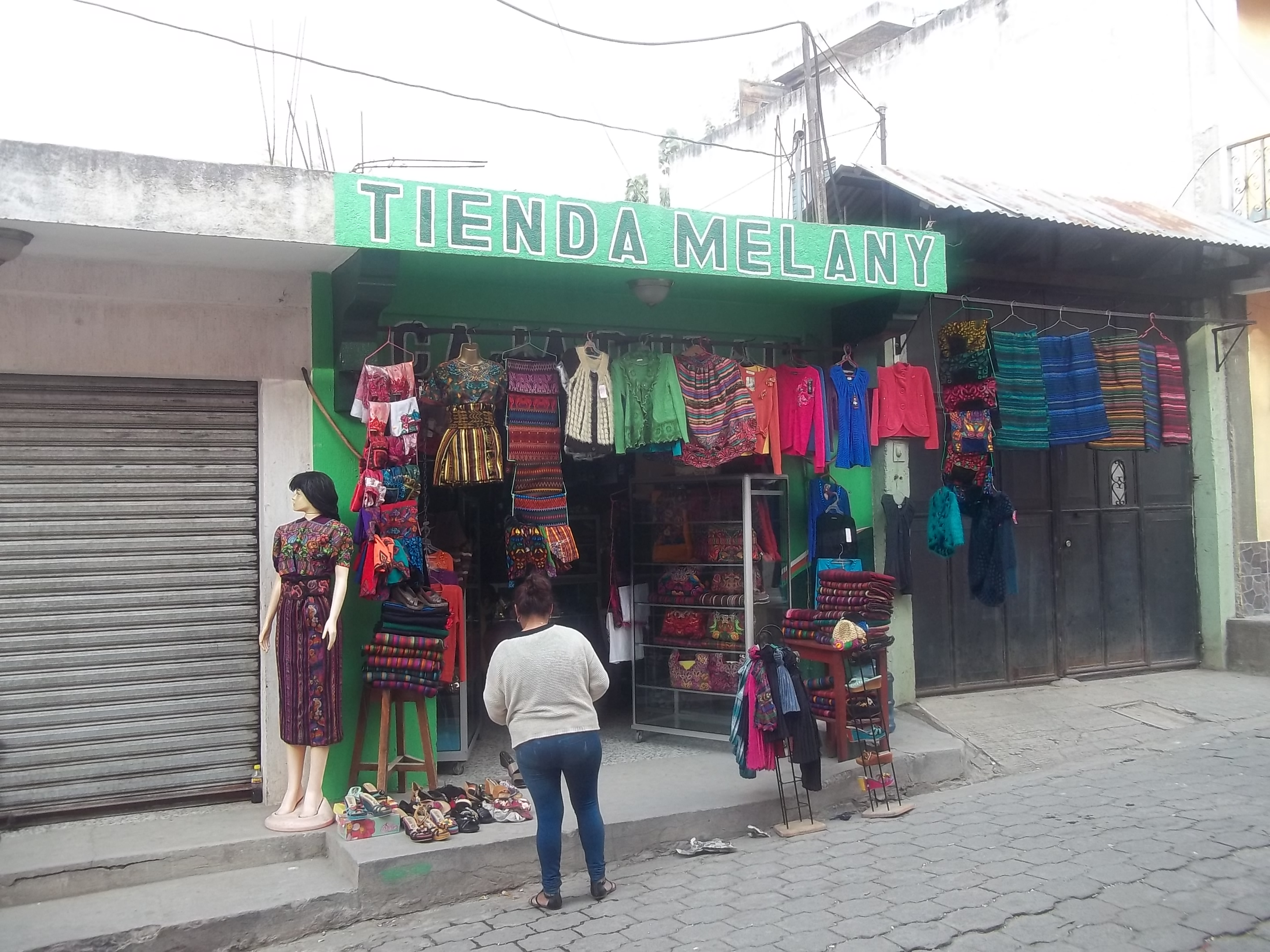 San Martín Sacatepéquez, Quetzaltenango department, Guatemala.